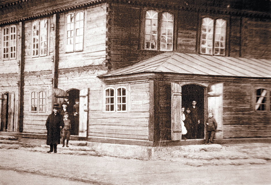 Old Synagogue in Jedwabne, Poland; destroyed in an accidental fire in 1913